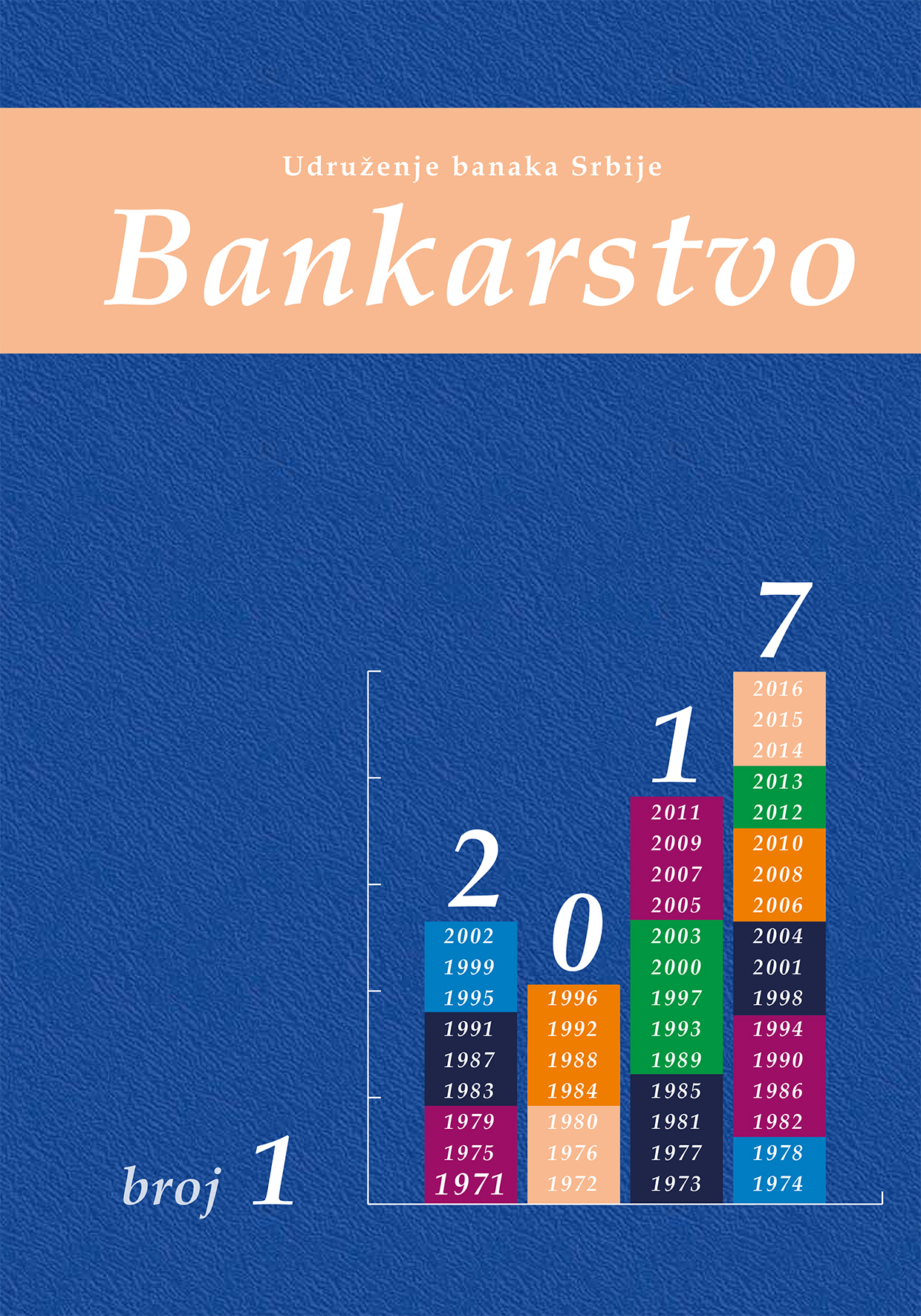 Journal Bankarstvo, Association of Serbian Banks, Number 1, 2017, Serbia